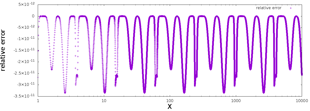 Relative error between Fast inverse square root that carry out 3 iterations in Newton's root-finding method and 1/sqrt . Note that double precision is adopted.